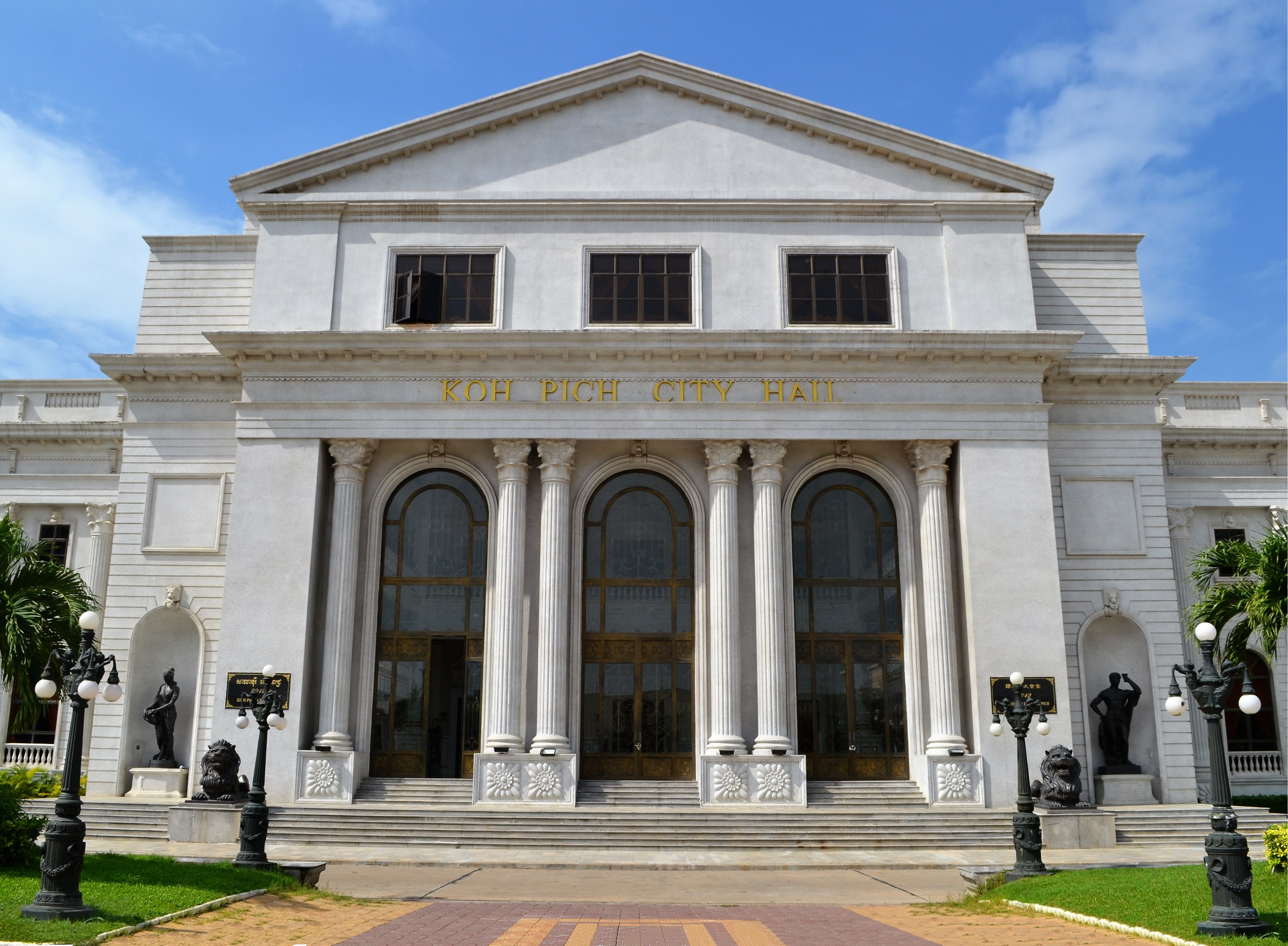 Koh Pich City HallTemplate:FR